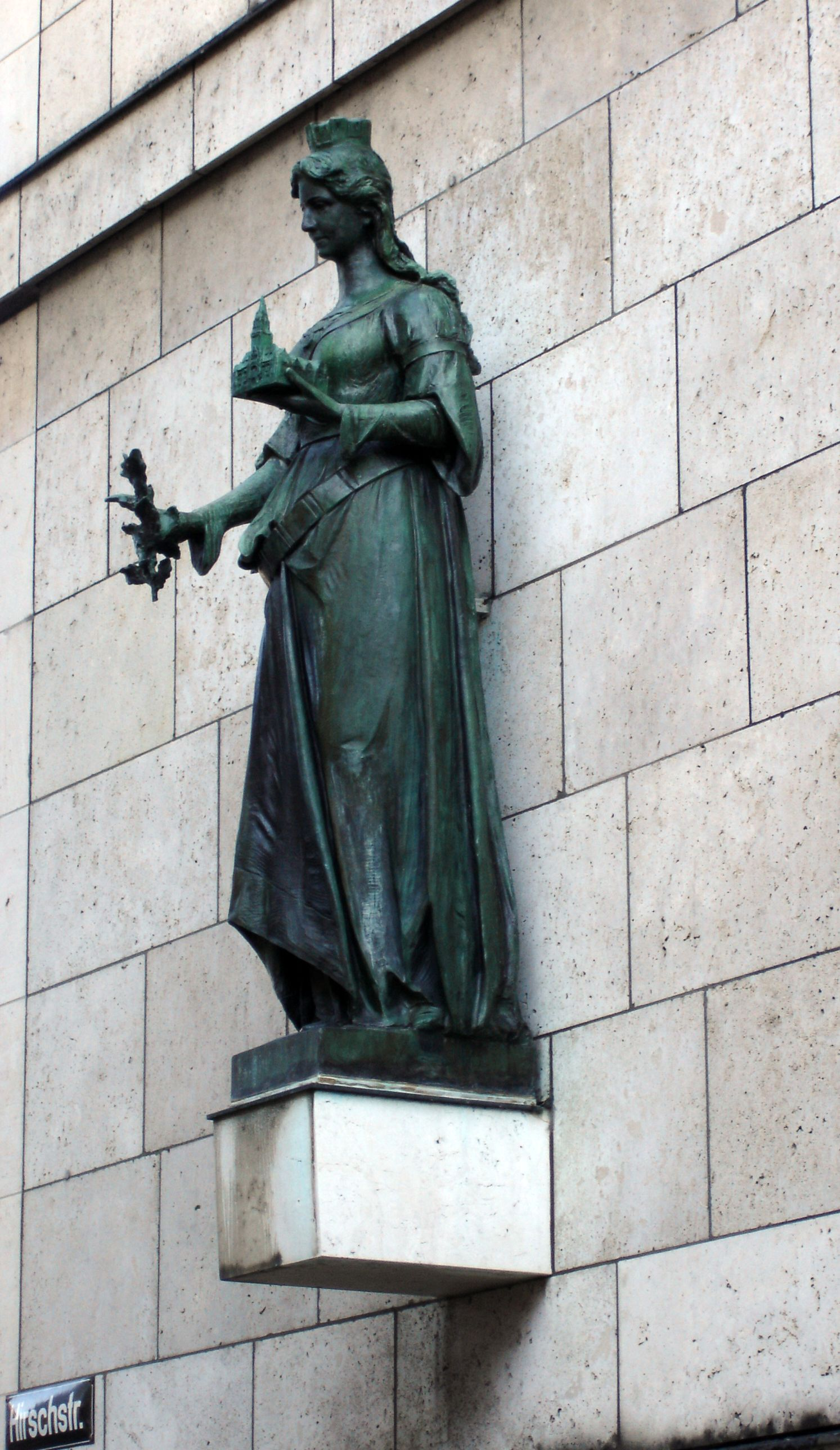 Statue of Stuttgardia - Symbol of the city of Stuttgart, Germany. Sculpted in 1905 by Heinz Fritz (1873-1927). Model: Else Weil (1888-1955)